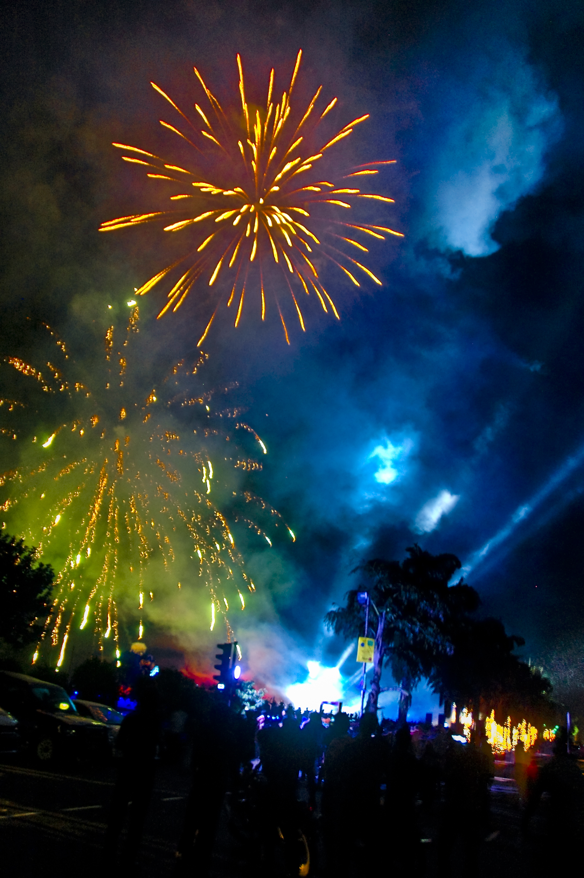 The 100-day countdown towards the Cricket World Cup has begun in Dhaka in style. Former Indian captain Sourav Ganguly attended the elaborate celebration that kicked off with fireworks. The countdown programme at South Plaza of the parliament building, organised by the Bangladesh Cricket Board was open to all. The World Cup will start on Feb 19, 2011 with a match between India and Bangladesh.